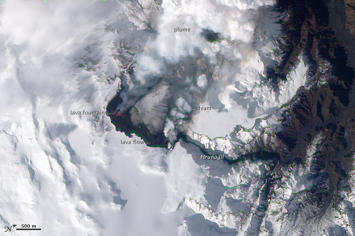 Iceland’s Eyjafjallajökull Volcano burst into life for the first time in 190 years on March 20, 2010. A 500-meter- (2,000-foot) long fissure opened in the Fimmvörduháls pass to the west of the ice-covered summit of Eyjafjallajökull. Lava fountains erupted fluid magma, which quickly built several hills of bubble-filled lava rocks (scoria) along the vent. A lava flow spread northeast, spilling into Hrunagil Gully. This natural-color satellite image shows lava fountains, lava flows, a volcanic plume, and steam from vaporized snow. The image was acquired on March 24, 2010, by the Advanced Land Imager (ALI) aboard NASA’s Earth Observing-1 (EO-1) satellite. The lava fountains are orange-red, barely visible at the 10-meter (33-foot) resolution of the satellite. The scoria cones surrounding the fissure are black, as is the lava flow extending to the northeast. White volcanic gases escape from the vent and erupting lava, while a steam plume rises where the hot lava meets snow. (The bright green color along the edge of the lava flow is an artifact of the sensor.)